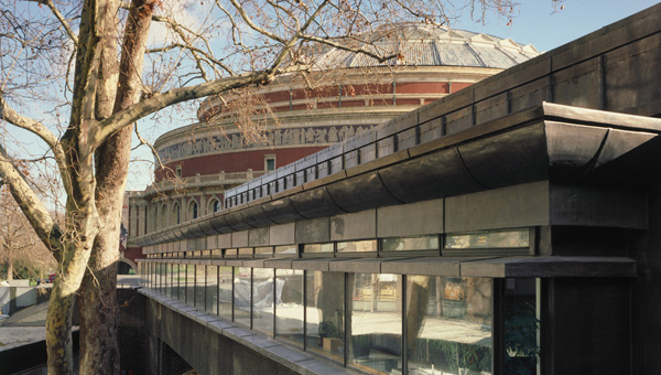 The Royal College of Art library exterior detail designed by Wright & Wright Architects with the Royal Albert Hall in the background